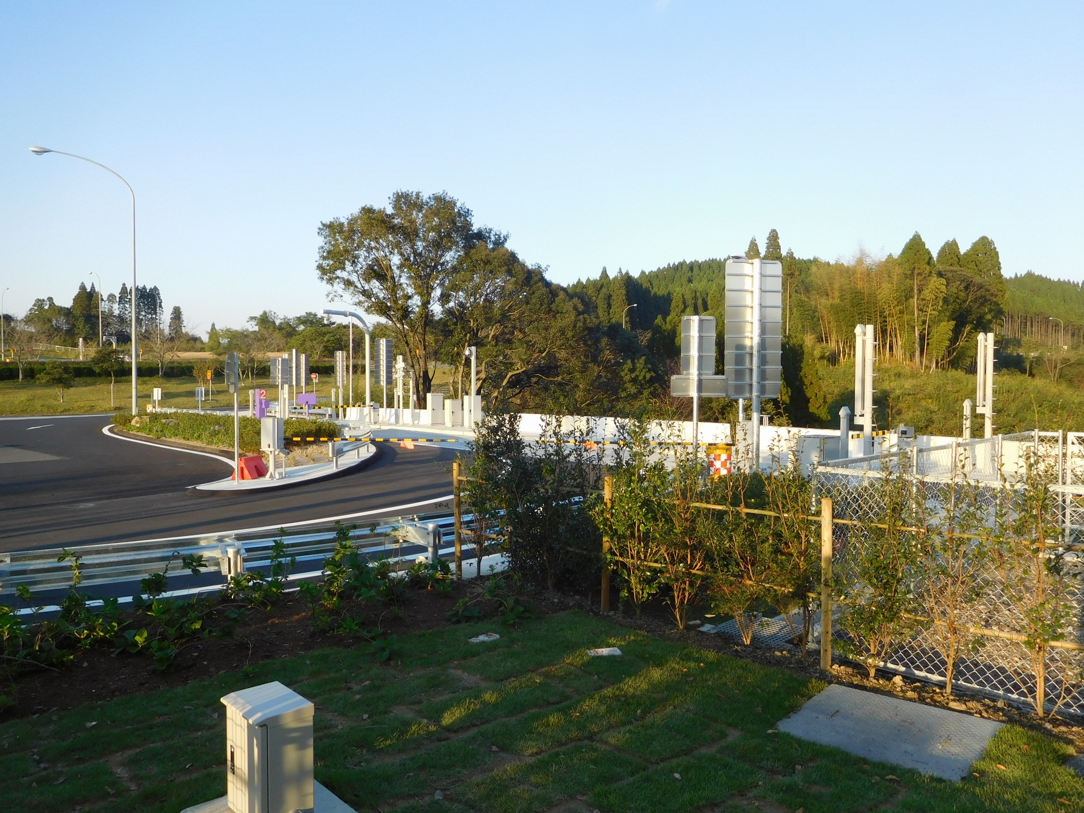 The Yamanokuchi Smart Interchenge (Southern side) of Miyazaki Expressway (Yamanokuchi, Miyakonojo City, Miyazaki, Japan)